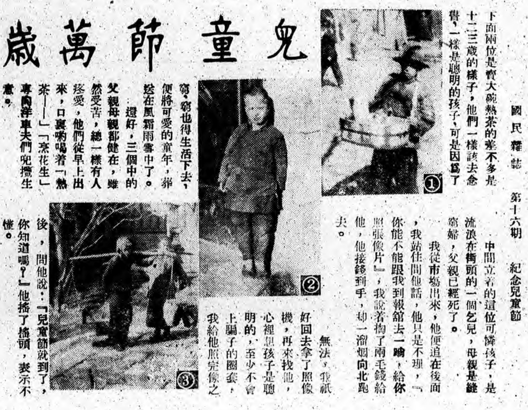 Homeless children on Children's Day in Republican China